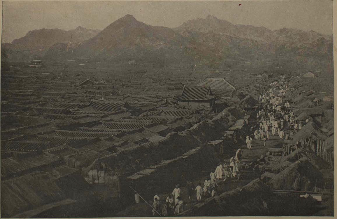 A view of Seoul in 1894.